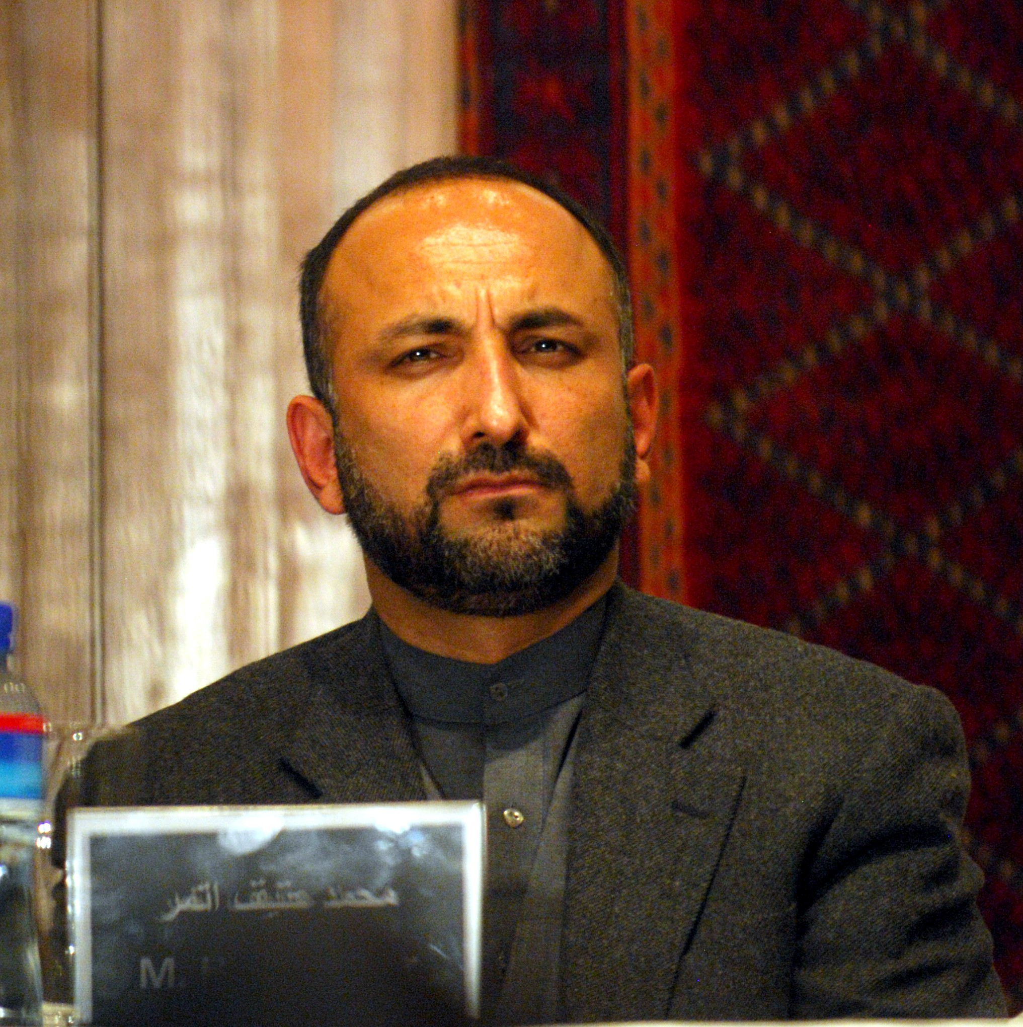 Mohammad Hanif Atmar at the CJTF Conference (Counter Narcotics Justice Task Force) in Kabul, Afghanistan.